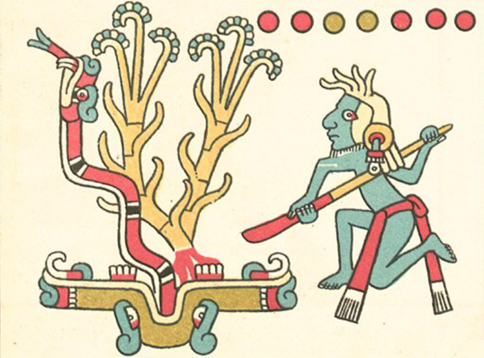 Farmer using the uictli, the corn is weak and a snake comes from the earth. The harvest is bad